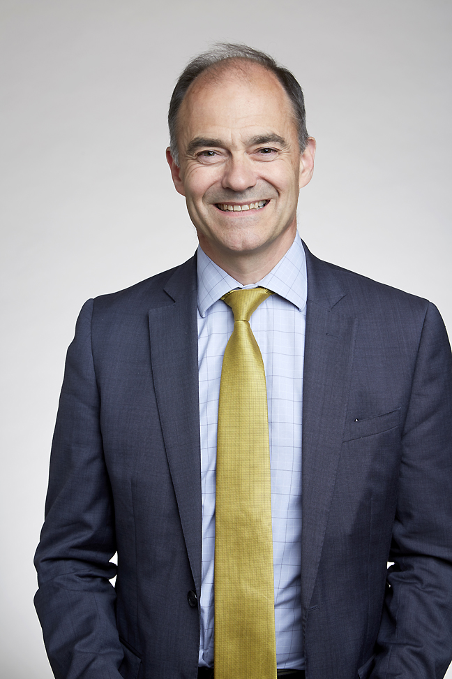 (David) Warren Arthur East CBE FRS FREng (born 1961) is the chief executive officer (CEO) of Rolls-Royce Holdings. He previously held senior positions at ARM Holdings and Texas Instruments. Attribution: The Royal Society